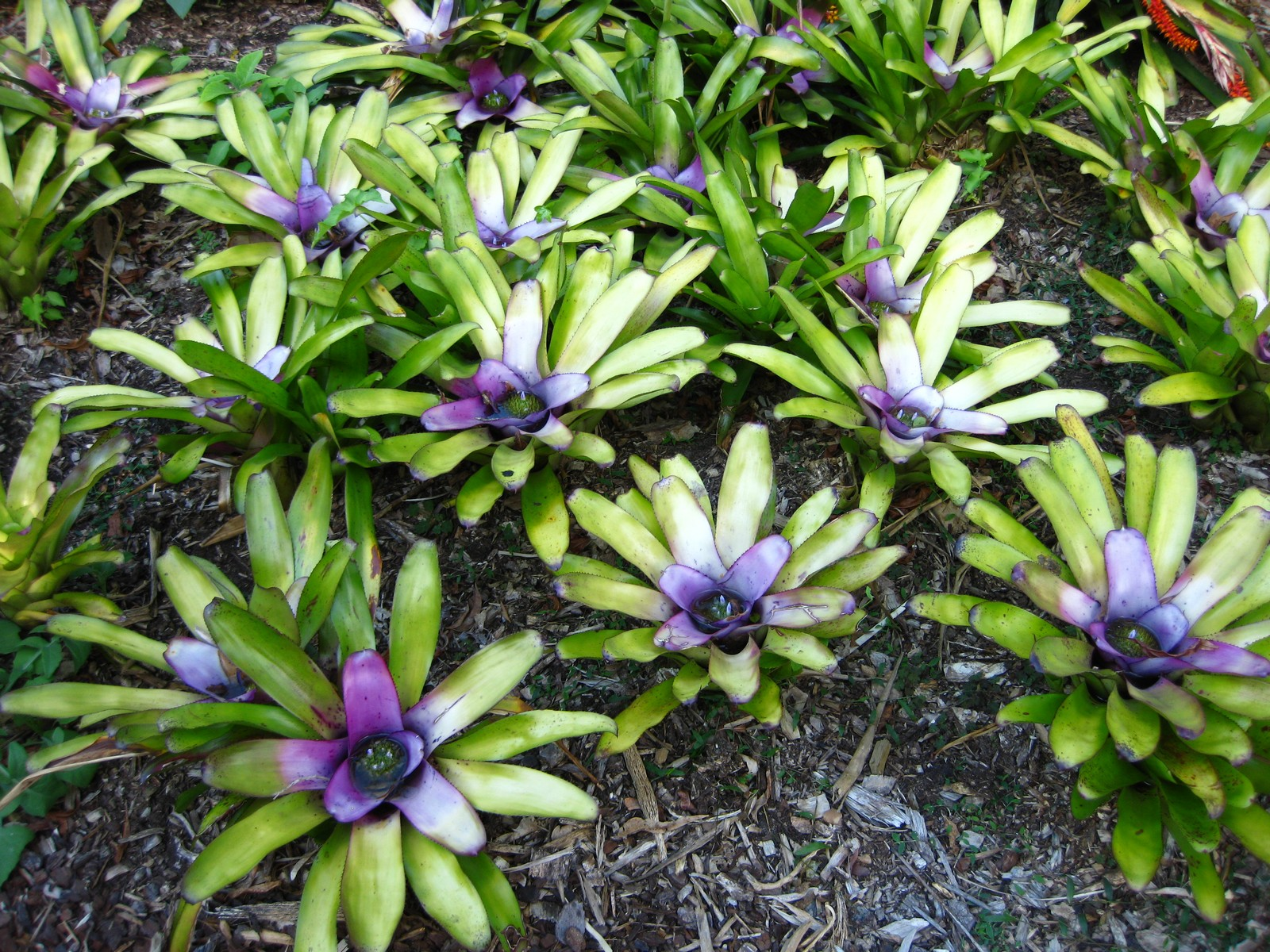 Photographed at the Royal Botanic Gardens Sydney (Australia) in December